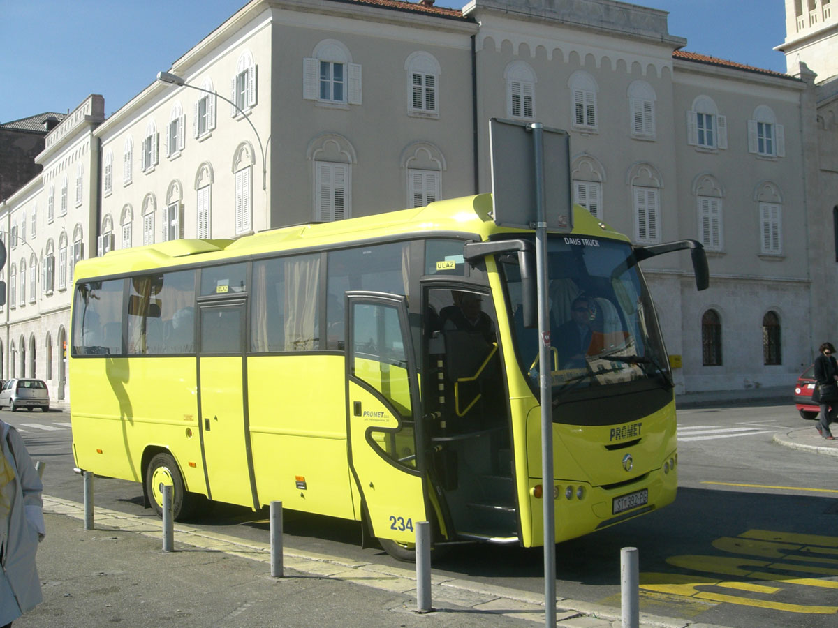 Irisbus Proxys bus Nr. 12 near church of St. Frane, Split. Year built 2007. Made by Otoyol for Irisbus.